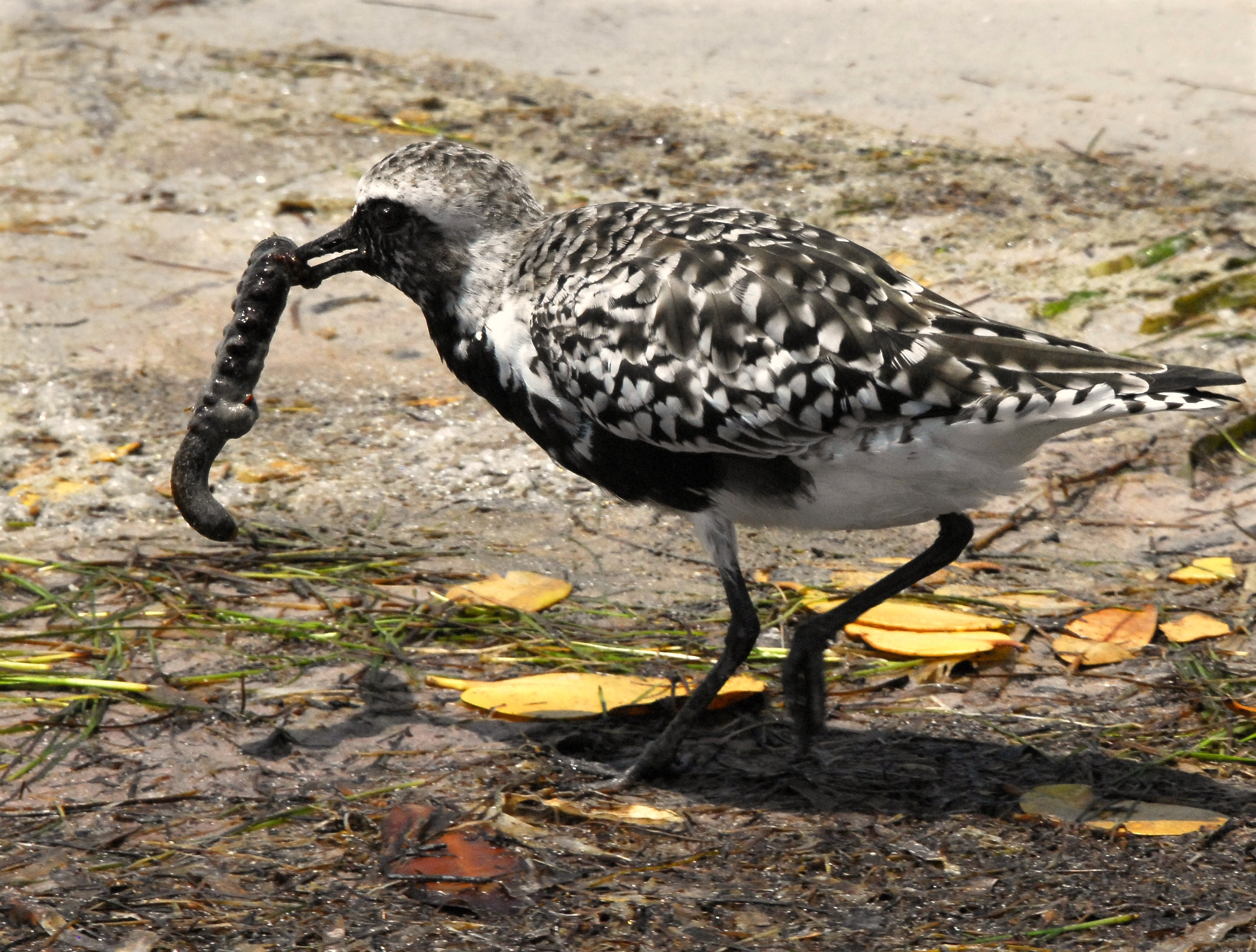 Black-bellied Plover with worm at Fort De Soto Park